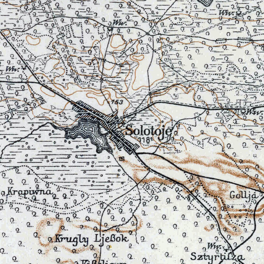 Zolote on the map "Karte des Westlichen Russlands", T 35, 1917. According to Digital Repository of Scientific Institutes and Kujawsko-Pomorska Digital Library the map is in the public domain.